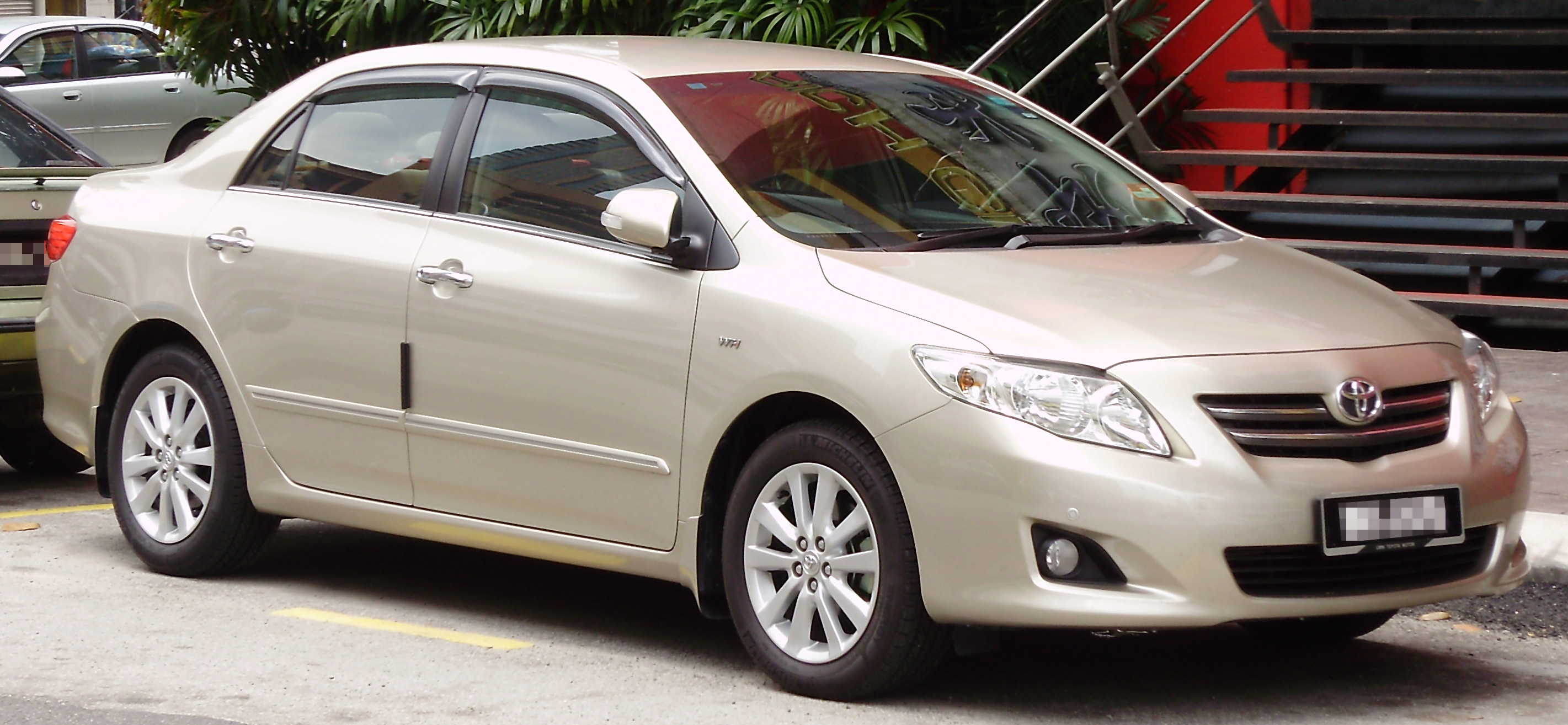 Front quarter view of a tenth generation (E140/E150) Toyota Corolla Altis in Pudu, Kuala Lumpur, Malaysia.